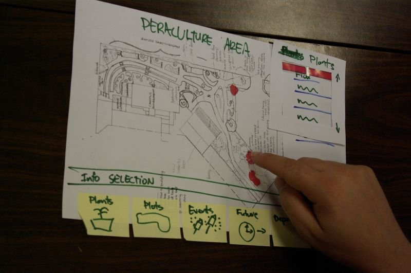 Interaction with a paper prototype